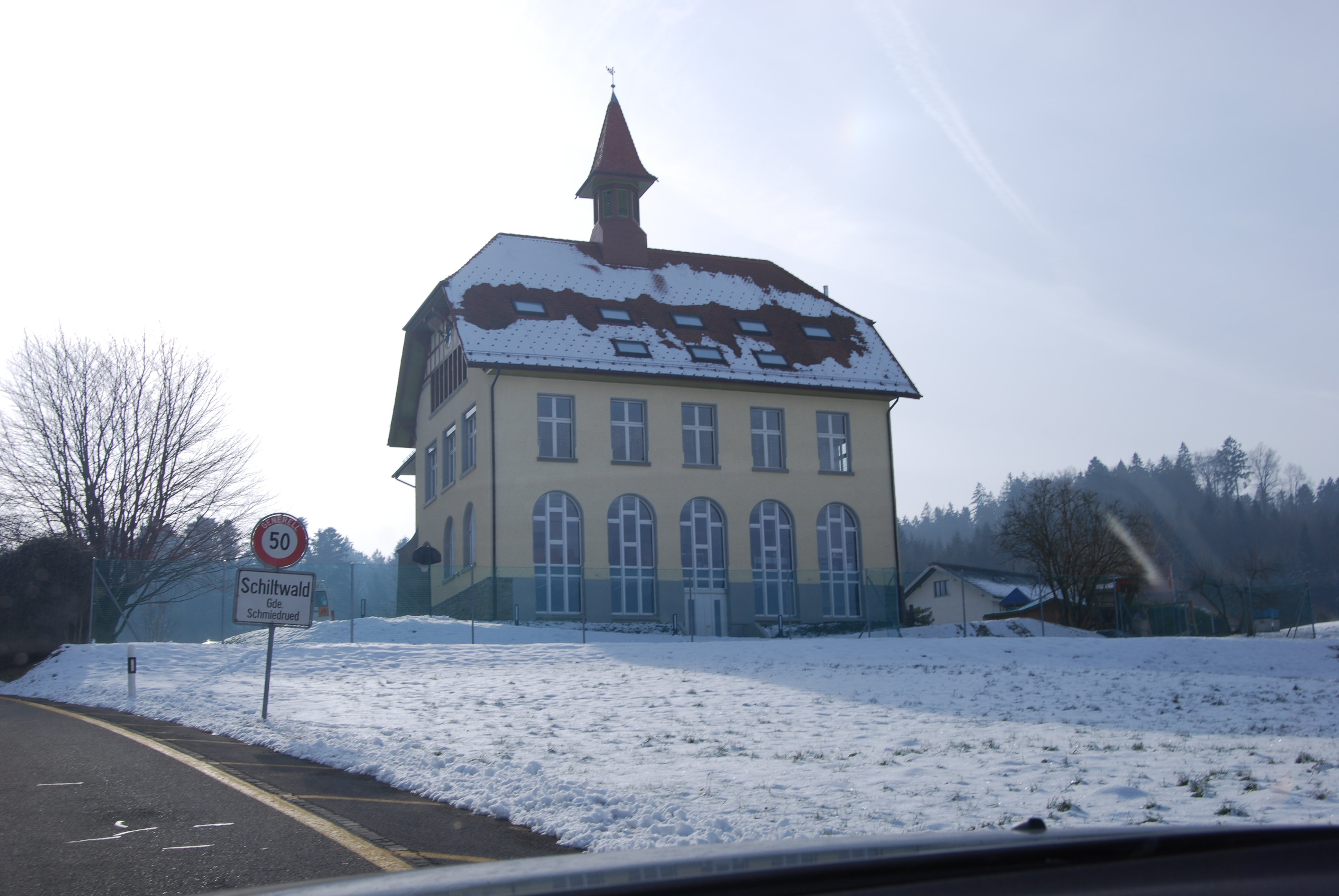 School at Schiltwald, municipality of Schmiedrued, canton of Aargau, SwitzerlandEsperanto: Lernejo en Schiltwald, komunumo Schmiedrued, Kantono Argovio, Svislando